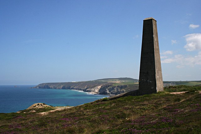 Clifftop Tower. I do not know the purpose of this unadorned tower. If it were a daymark for sailors I would have expected it to be painted white. In the 19th century this area of the cliff was heavily mined and the chimneys of mine engine houses would have been prominent landmarks from sea. It is possible that the tower was built to replace those, although this is just an idea. In the distance can be seen St Agnes Head and Beacon. Another contributor has added the following comments "This is a chimney. The long flue can be seen entering the base from the left. Arsenic deposits were removed from the inside of the flue".